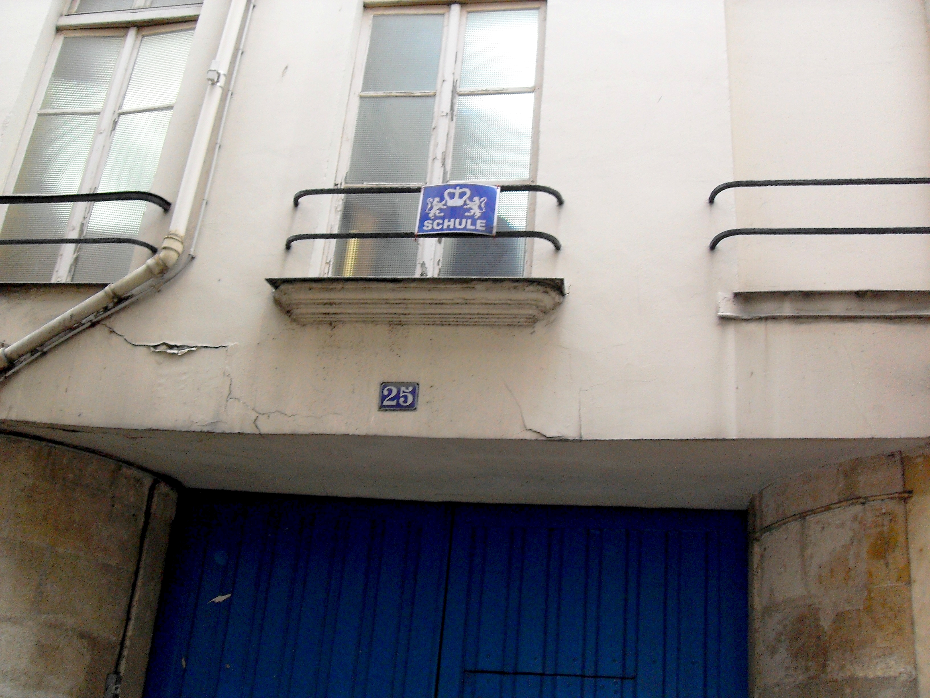 Shule 25 rue des rosiers Paris